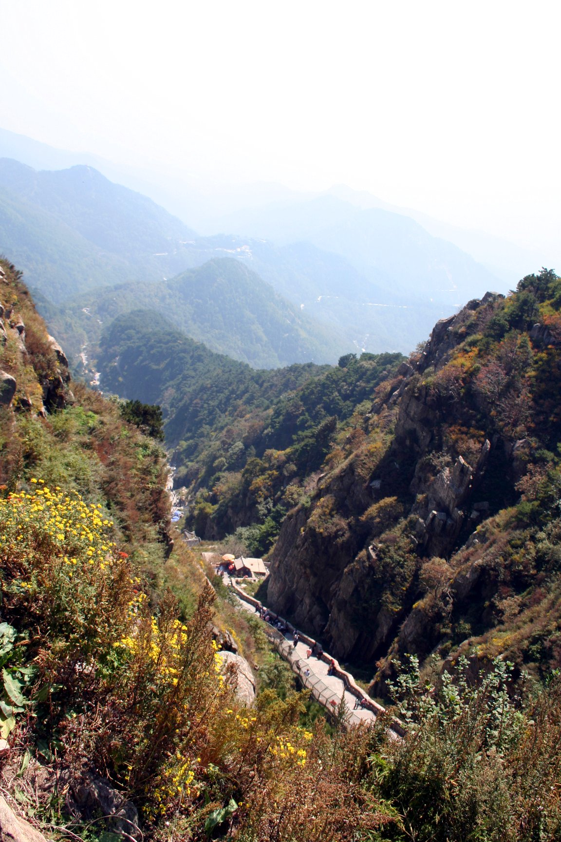 Photograph of the main stairway leading up to Mount Tai, Shandong Province, China